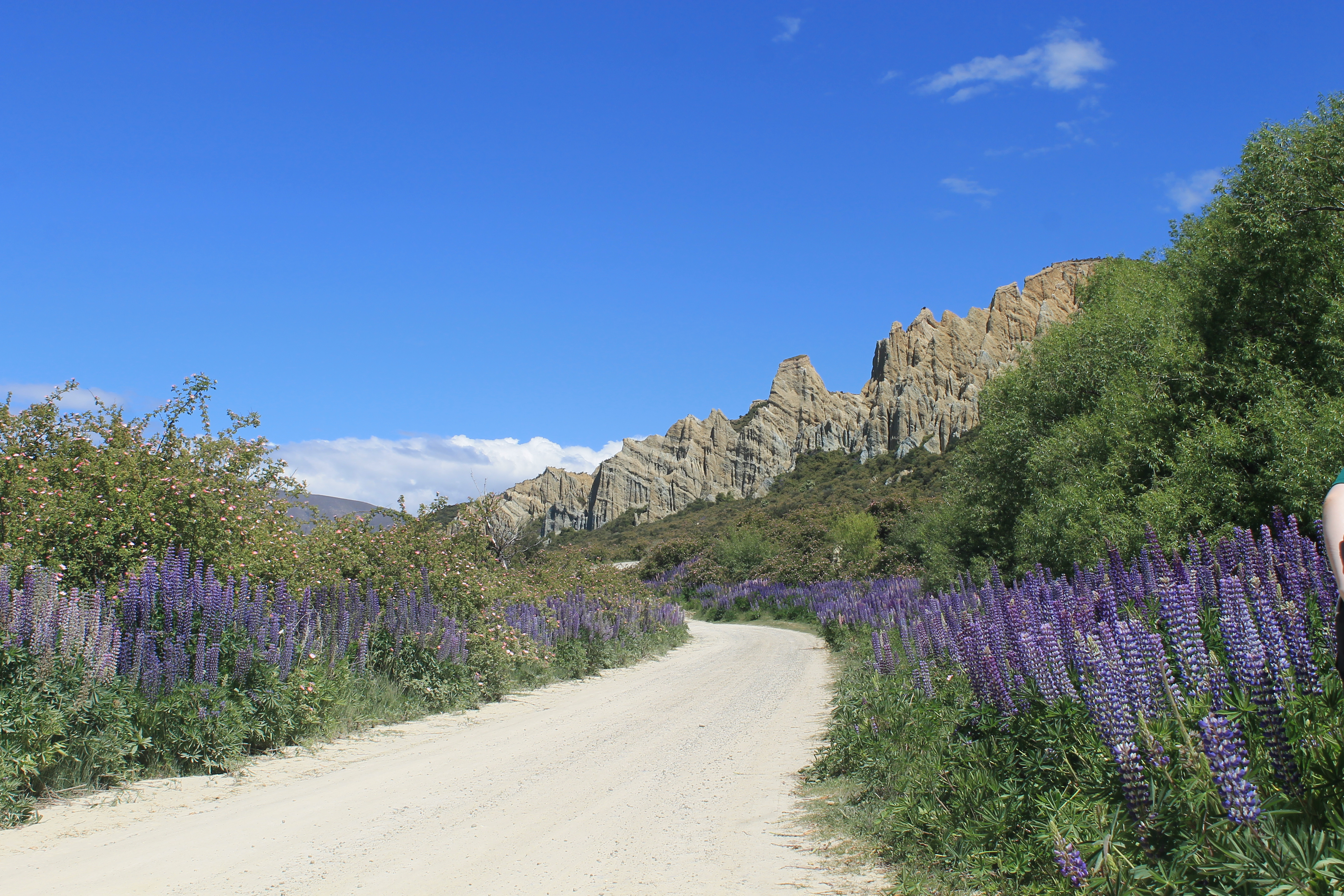 Omarama Clay Cliffs in Waitaki District, New Zealand. Formed along the Osler Fault, the Clay Cliffs are deeply dissected erosional features. These cliffs are made from fine-grained clays, silts, and gravels deposited by glacial rivers.